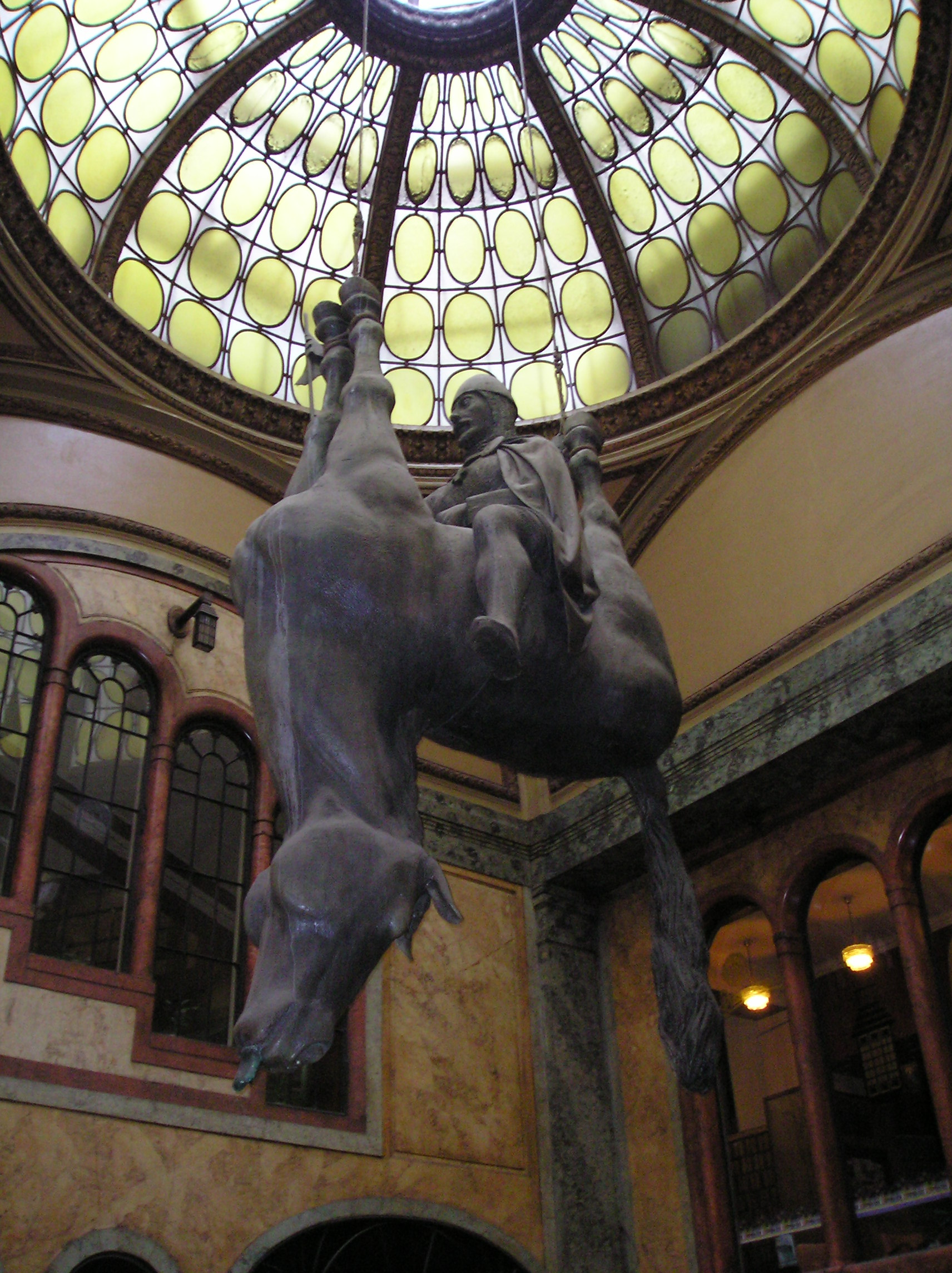 Prague - Lucerna Palace